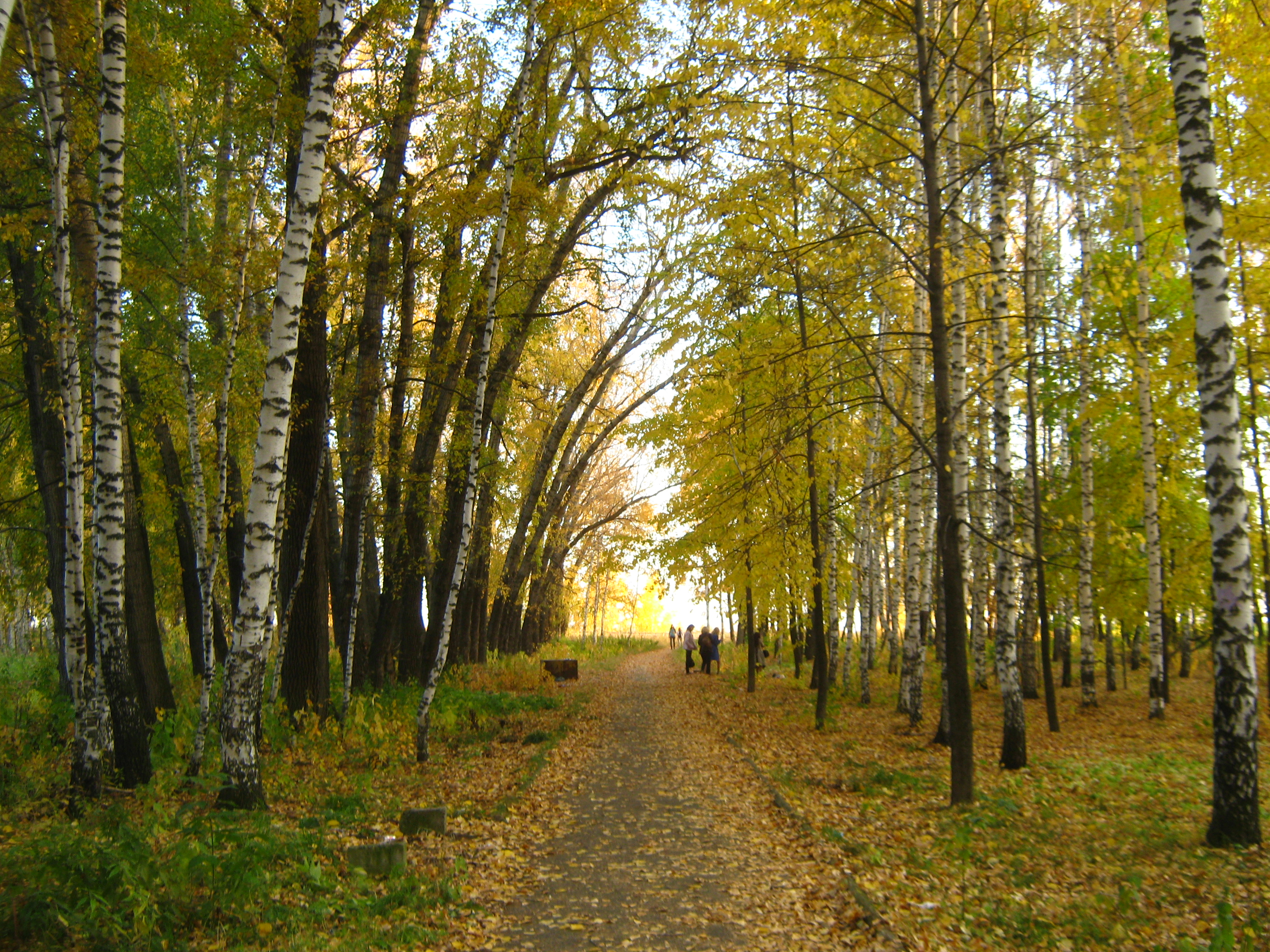 Lagerny gardens, Tomsk